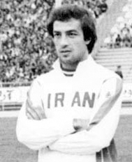 Nasrollah Abdollahi in Iran's squad playing in '78 World Cup qualification match against South Korea in Teheran on Nov 11, 1977